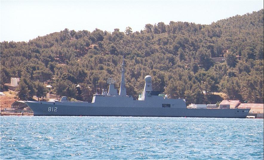 Saudian frigate Al Ryadh in Toulon Harbour, France.